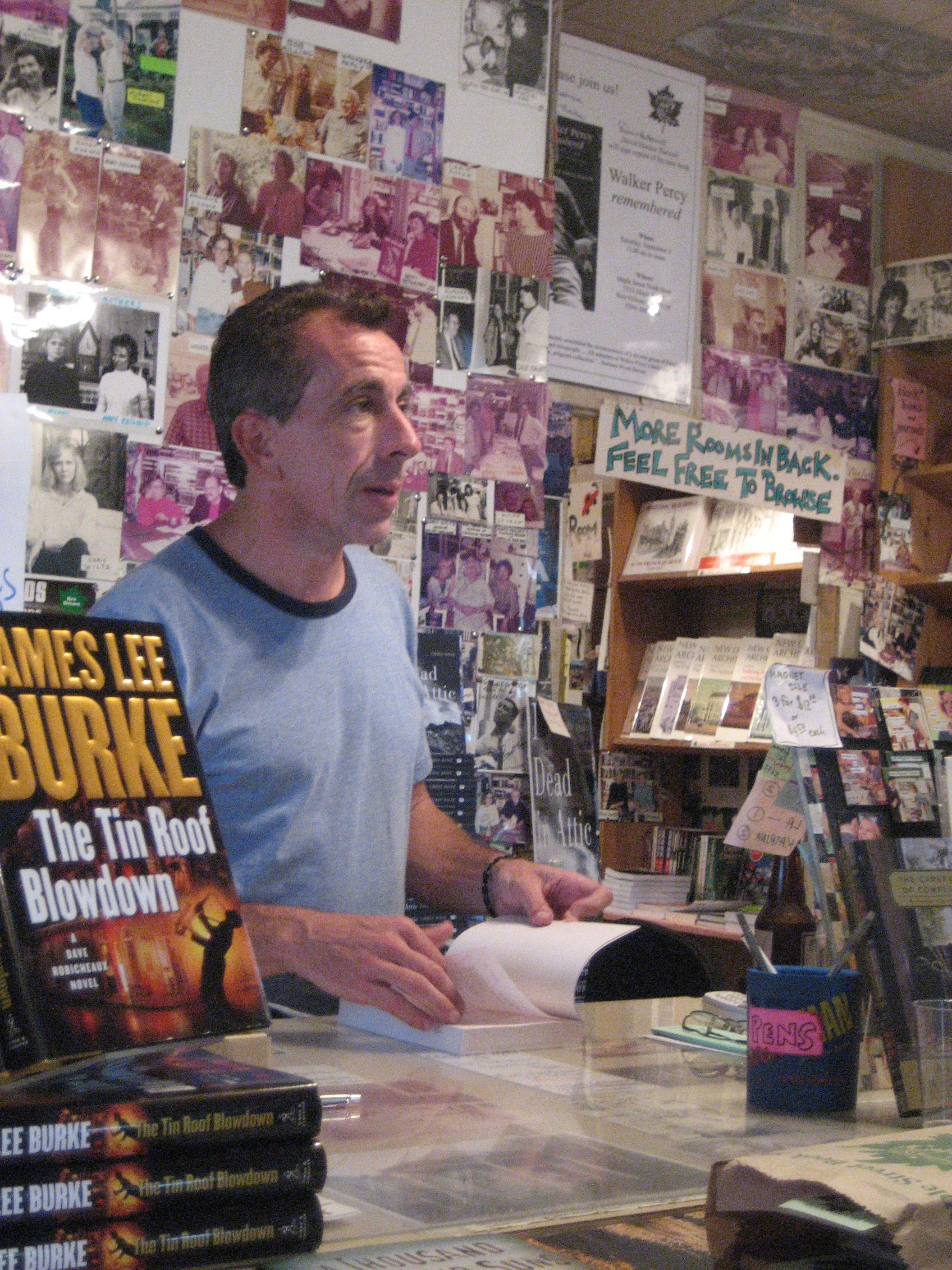 Writer Chris Rose reading from new edition of his book "One Dead In Attic" at the Maple Street Book Shop, New Orleans.